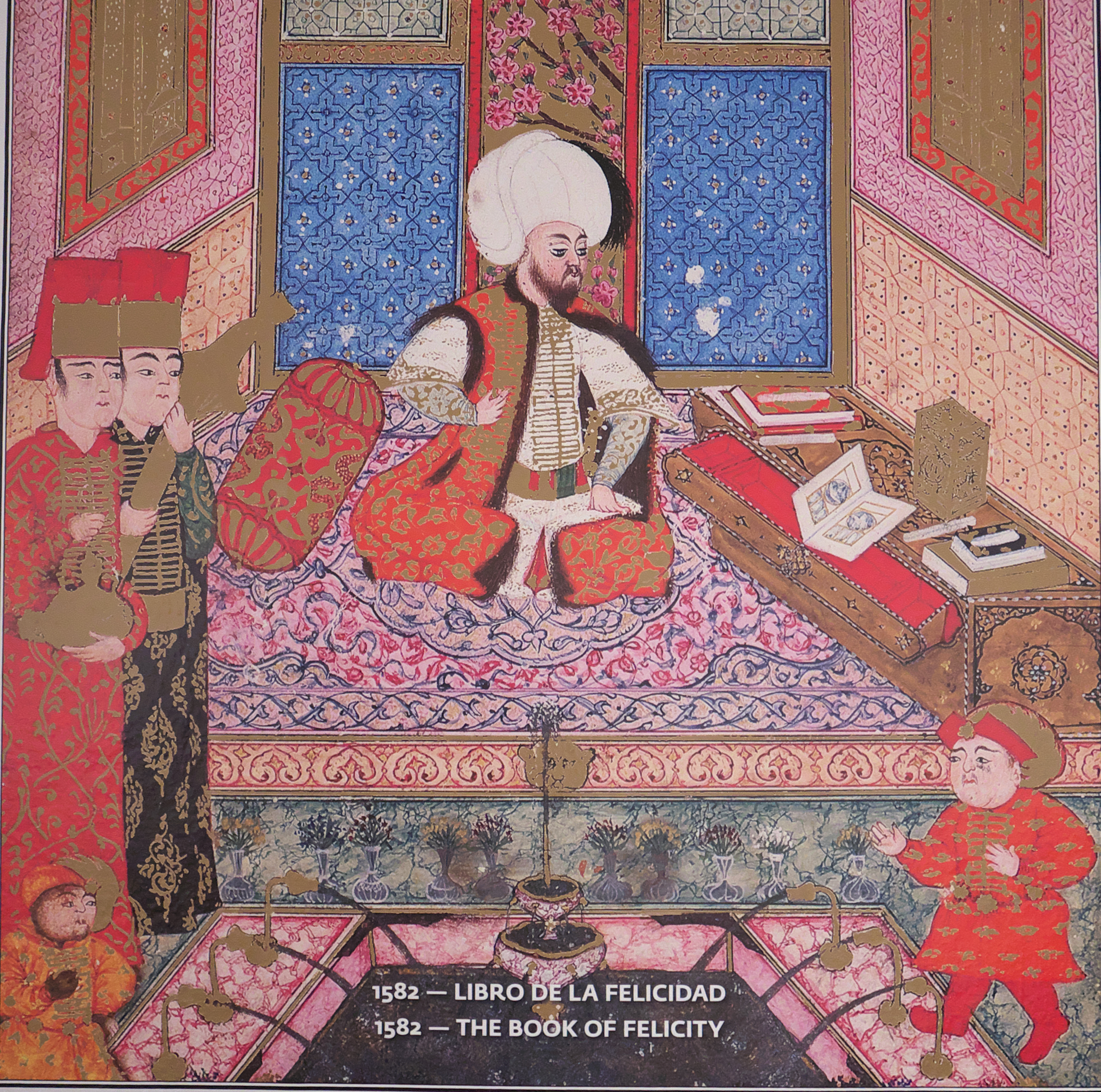 The Book of Felicity (1582)